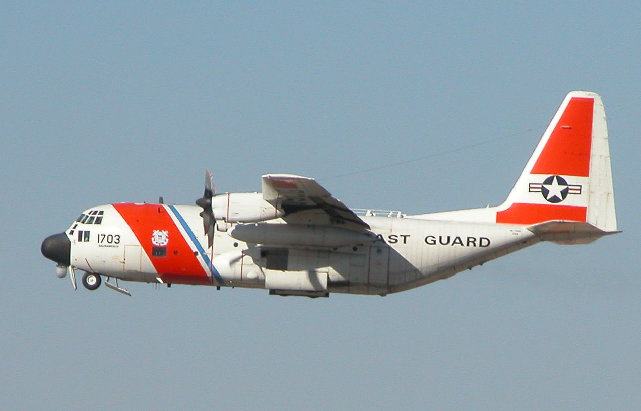 US Coast Guard HC-130H departs Mojave, California